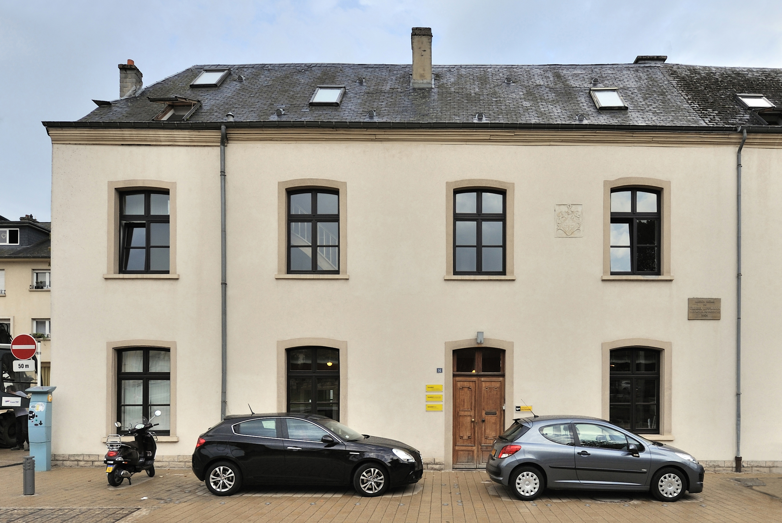 Luxembourg City, quarter of Bonnevoie: building at 14, place du parc: birthhouse of the Nobel laureate Gabriel Lippmann, listed as national monument since February 5 2007.